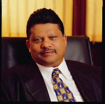 Abdul Wahab PV